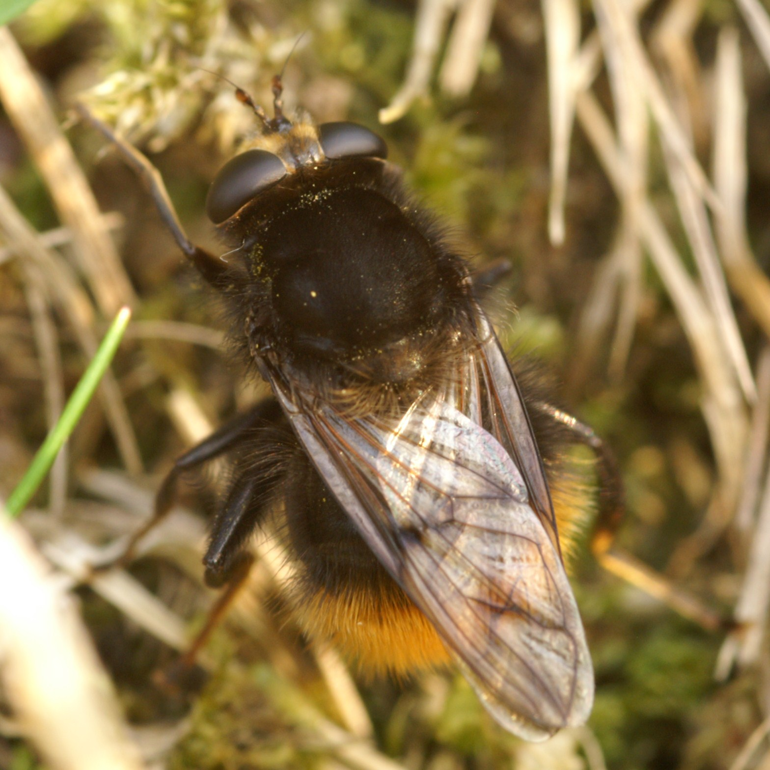 Criorhina ranunculi (female). Picture taken in Skåne, Sweden.